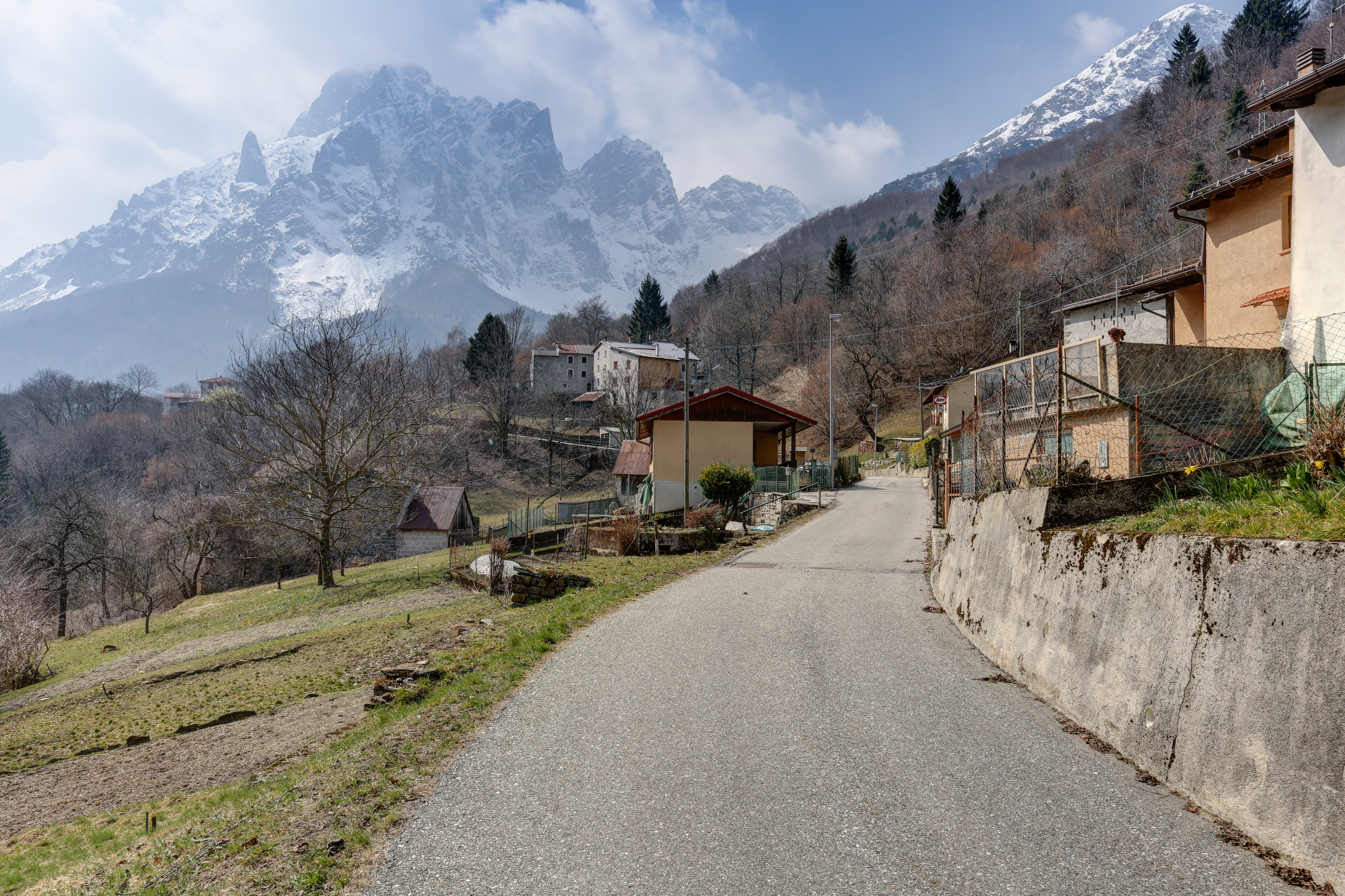 Bevorchians in the Val d'Aupa in the Carnic Alps, community Moggio Udinese / Friuli-Venezia Giulia / Italy / EU.